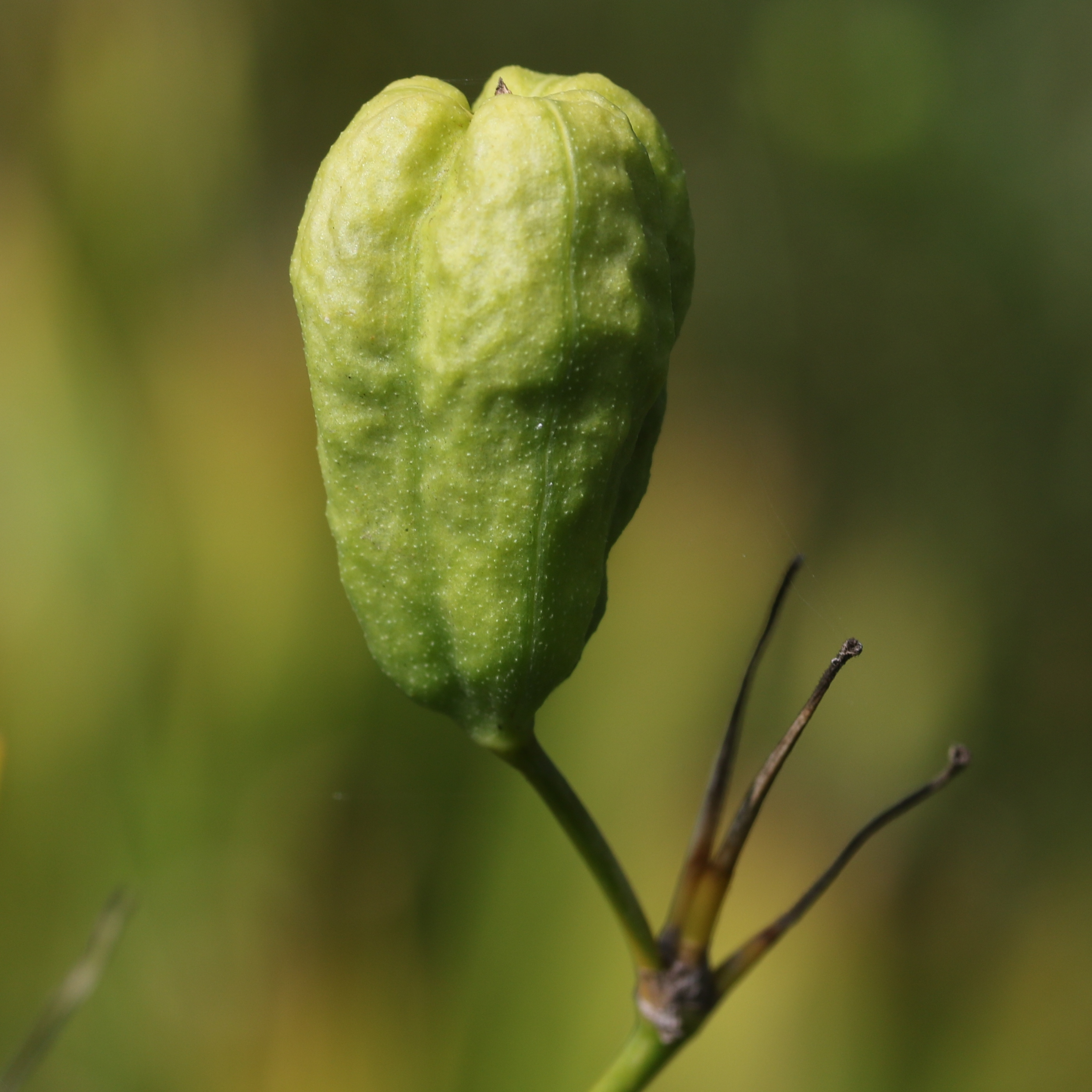 Iris domestica in Mount Ibuki, Maibara, Shiga Prefecture, Japan.